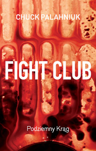 Polish outside of Fight Club, publisher Niebieska Studnia, 2006, ISBN 83-921512-4-0